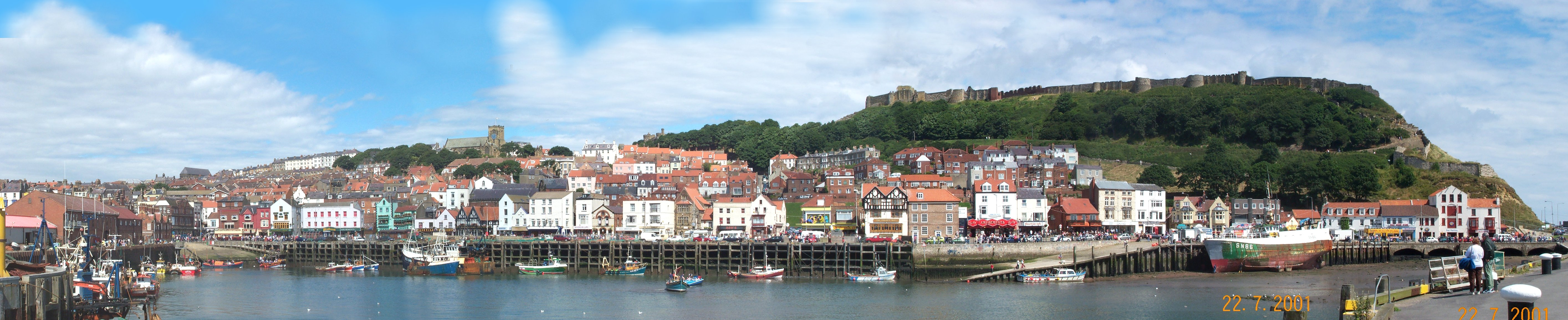 The South Bay at Scarborough, North Yorkshire, England. My Own Photograph, Stitched